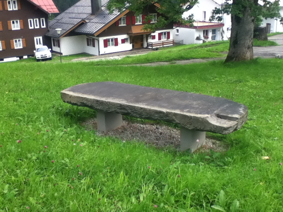 Der Ausrufestein befindet sich direkt vor der Pfarrkirche St. Jodokus